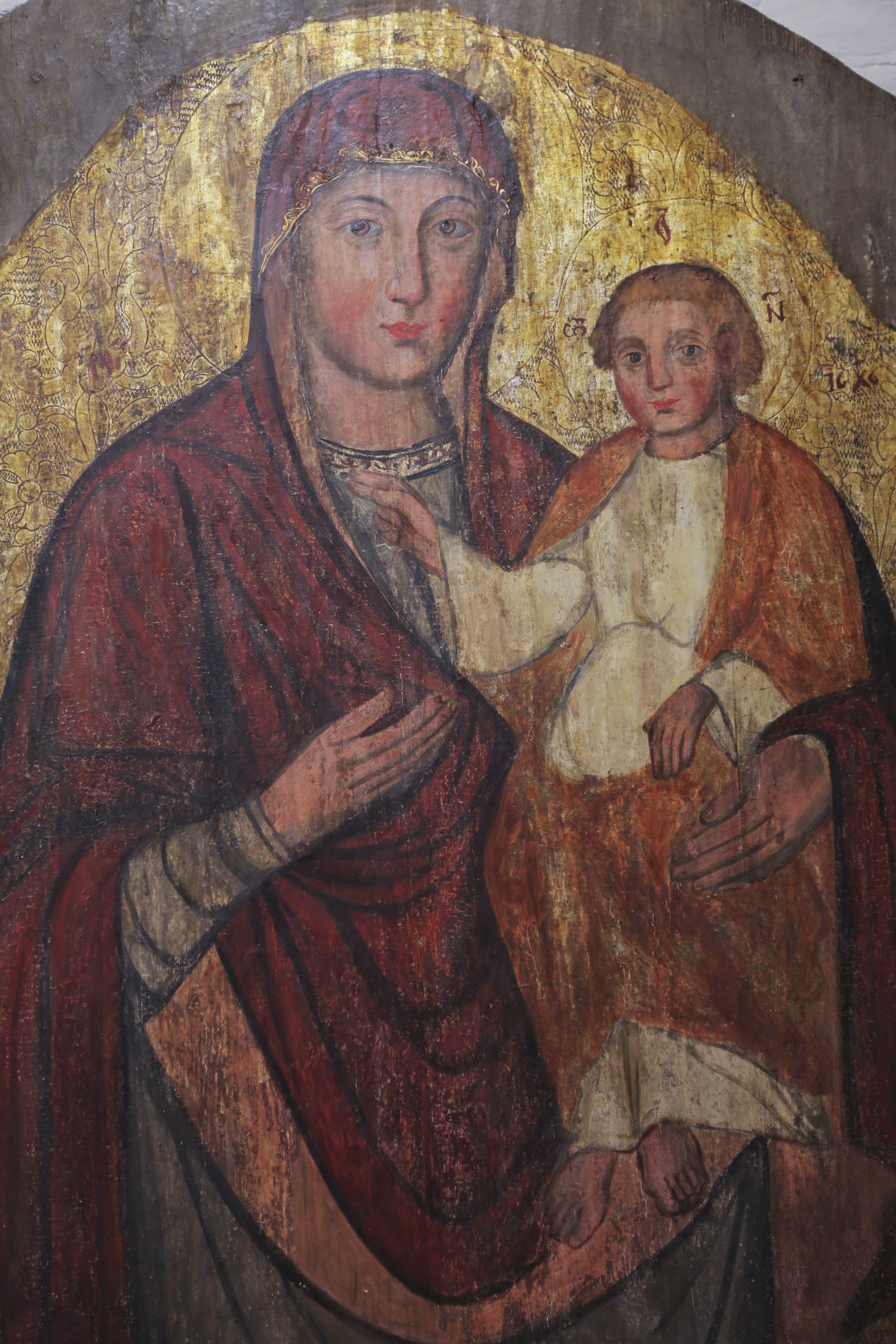 The icon of Holy Virgin of Wolodymyr-Volynsky. the 19th c. Radomysl Castle